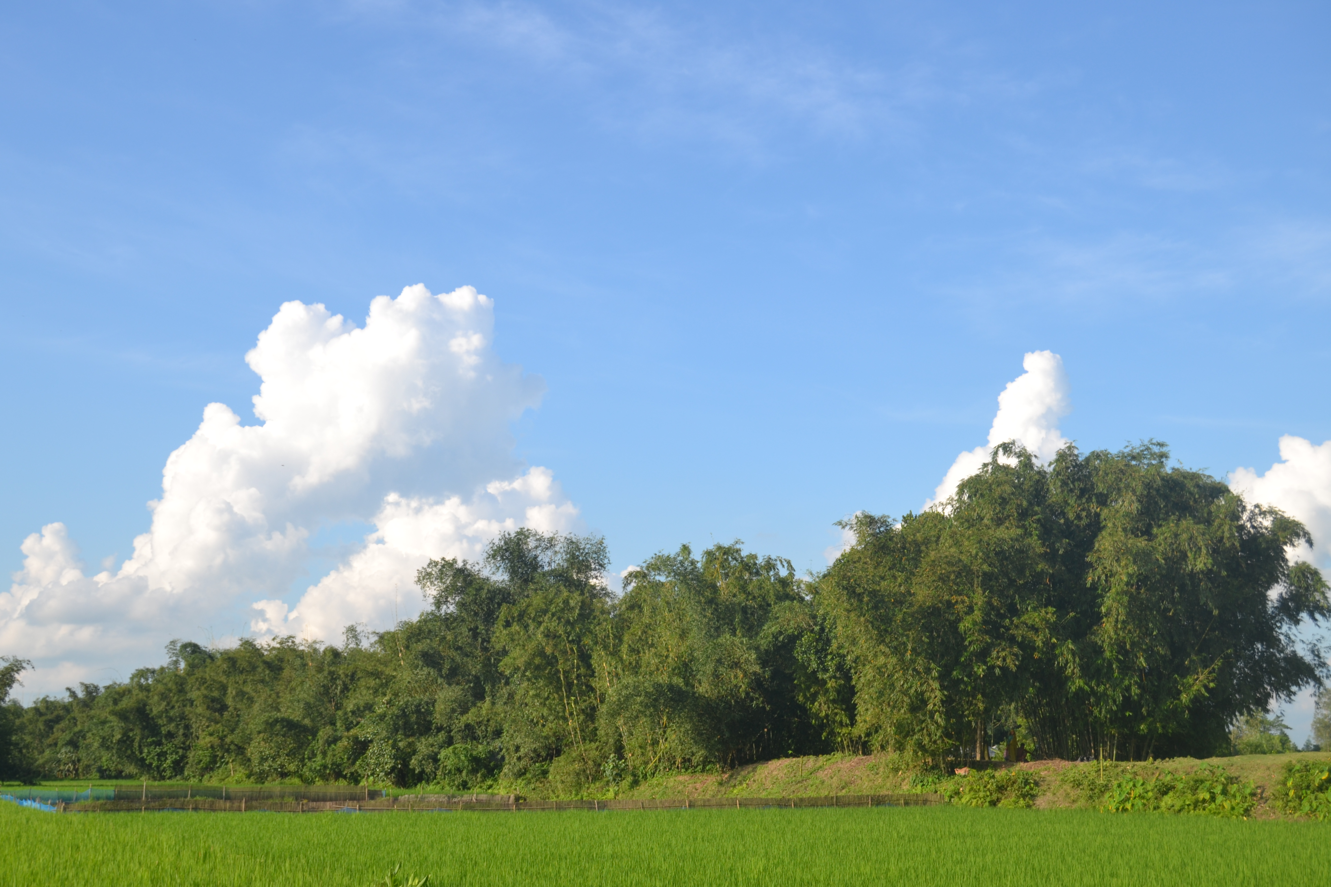 Dharmapaler Garh